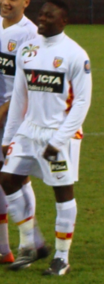 Dindane Lens Player